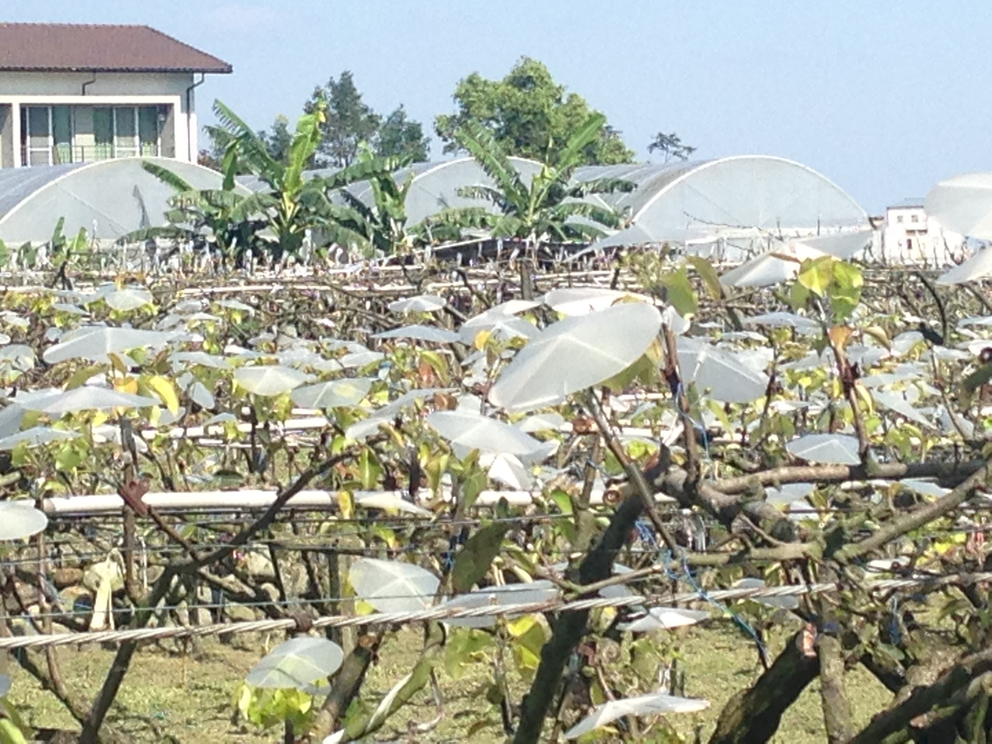 Top-Grafted pear in Sanxing, Yilan, Taiwan.